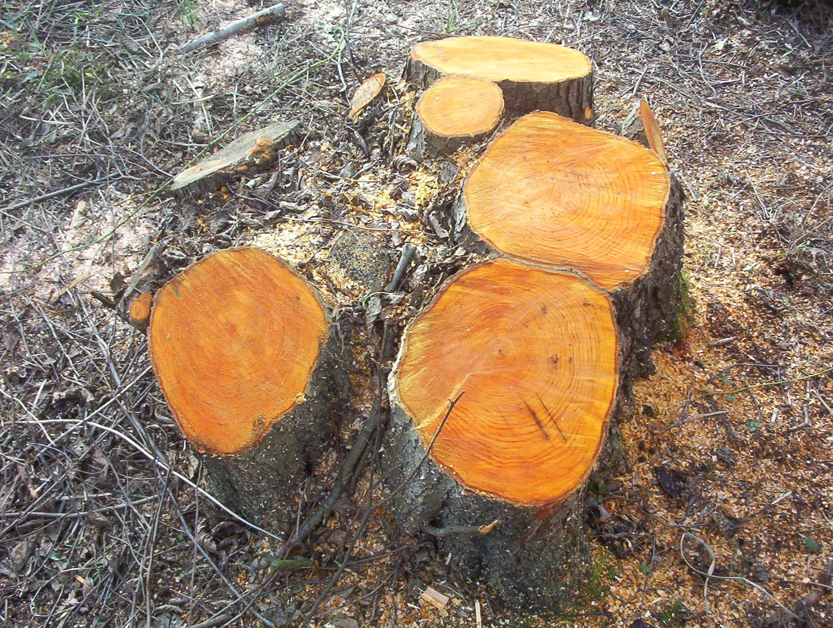 A recently coppiced stool of Alder (Alnus glutinosa), Hampshire, England, 2005.